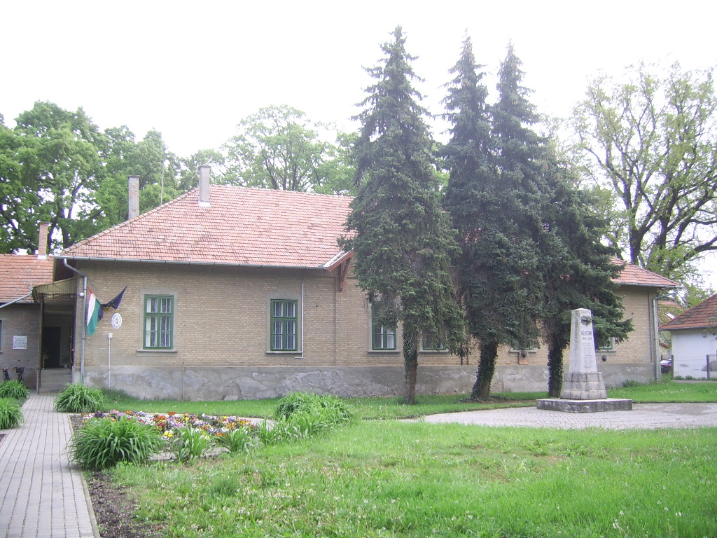 Derekegyház, Village hall, Hungary